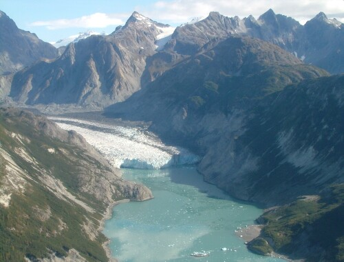 Glacier Bay taken by myself in September 2004. Quentin Goodman